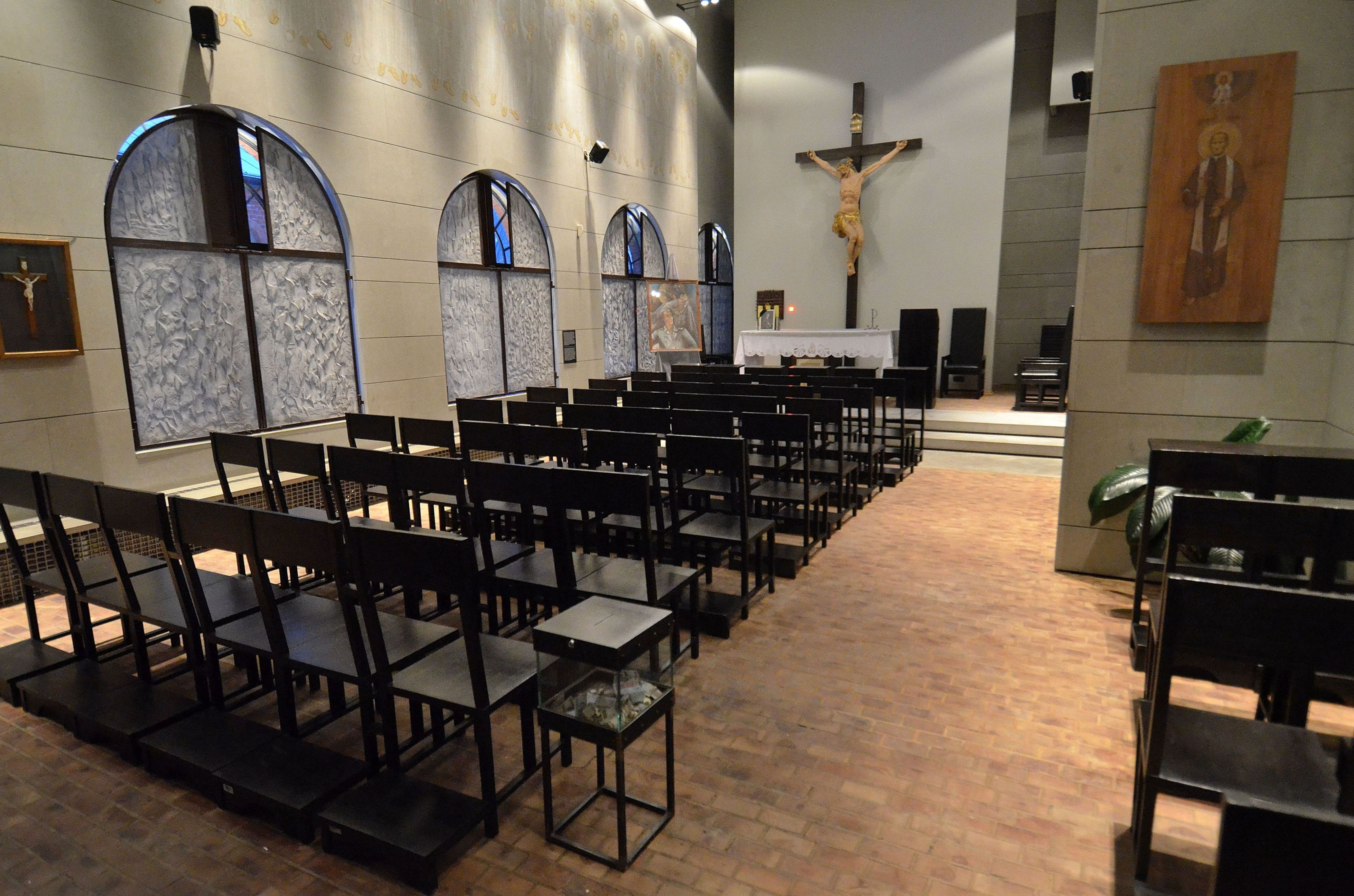 Blessed Józef Stanek Chapel at the Warsaw Uprising Museum